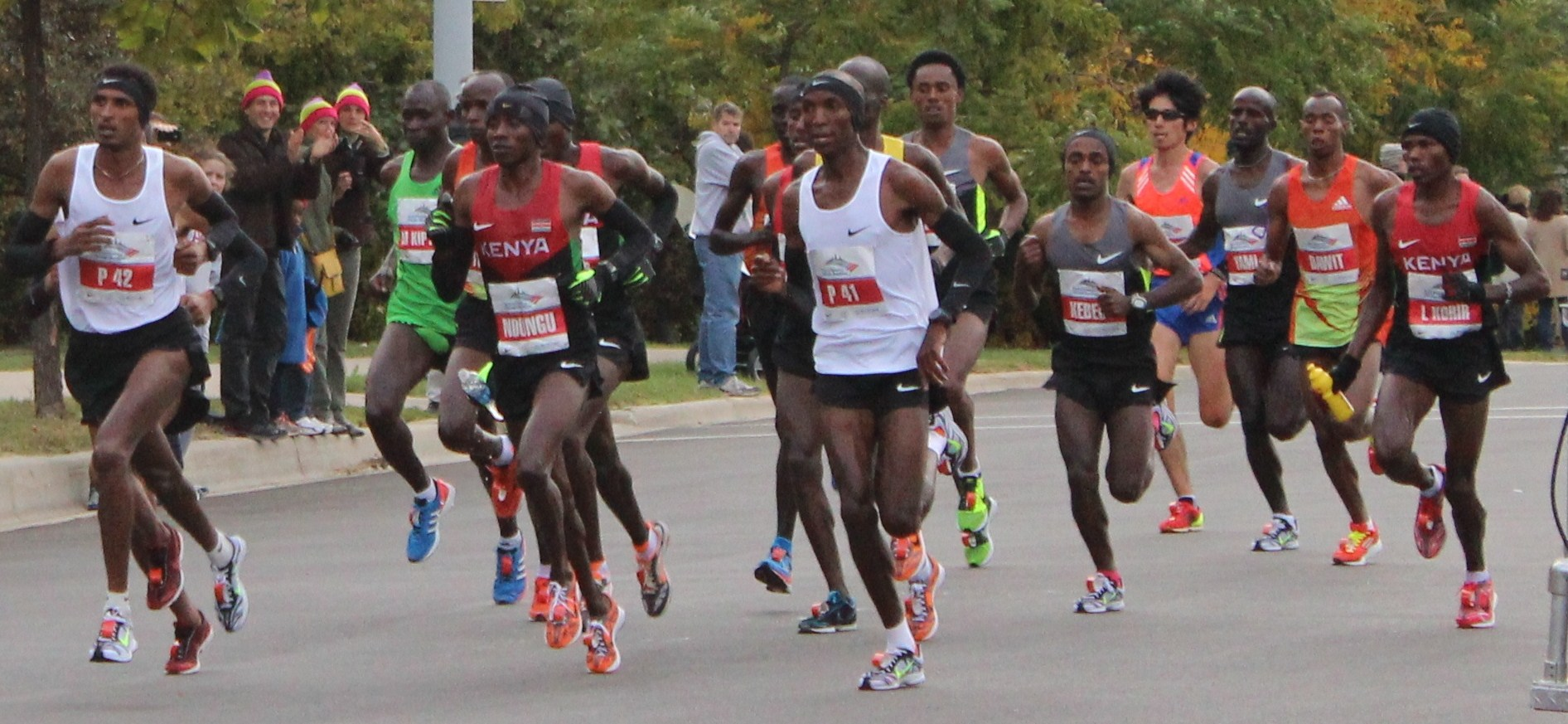 2012 Chicago Marathon - lead men